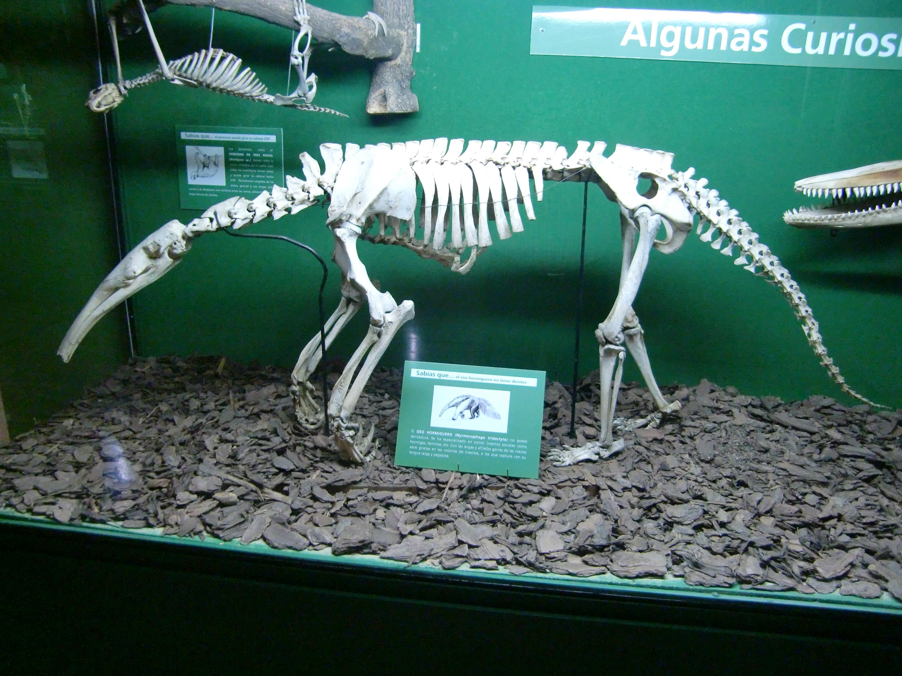 Skeleton of Myrmecophaga tridactyla on display at Bernardino Rivadavia Natural Sciences Museum with thanks to the museum for allowing photography